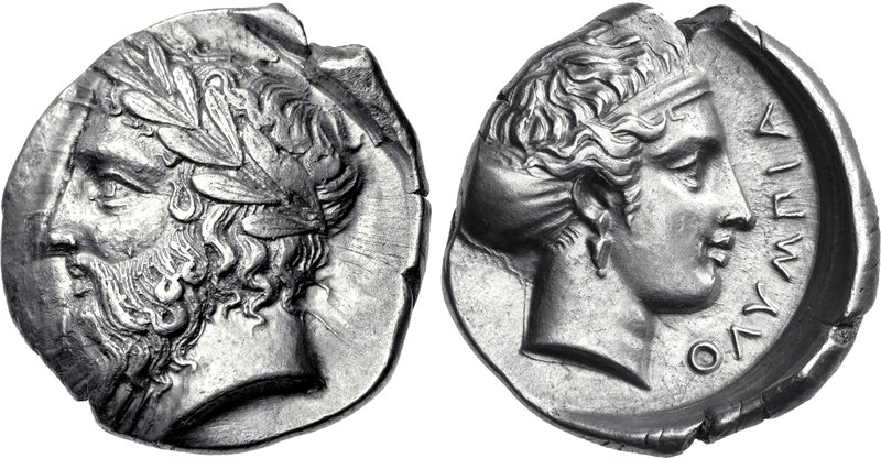 Olympia. 105th Olympiad. 360 BC. Silver Tetradrachm (24mm, 12.14 g). Head of Zeus left, wearing laurel wreath; [FAΛEION to left] / Head of the nymph Olympia right, hair in sphendone, wearing single-pendant earring; OΛYMΠIA to right; all within incuse circle.